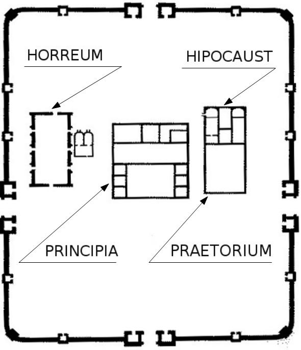 Plan of castra Jidova, Argeș County, Romania